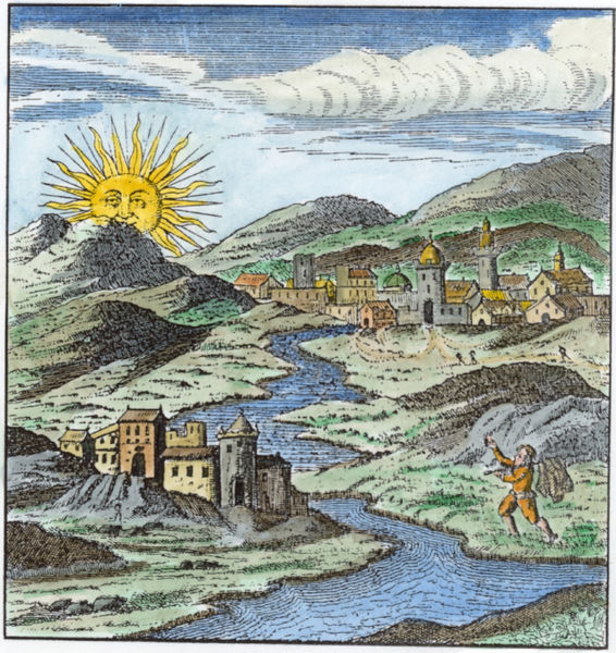 Splendor Solis. Image 22 - Sun rising over the city